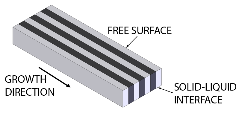 Eutectic lamellar structure; based on an image from page 333 of Smith, William F.; Hashemi, Javad (2006). Foundations of Materials Science and Engineering (4th ed.). McGraw-Hill. ISBN 0-07-295358-6.